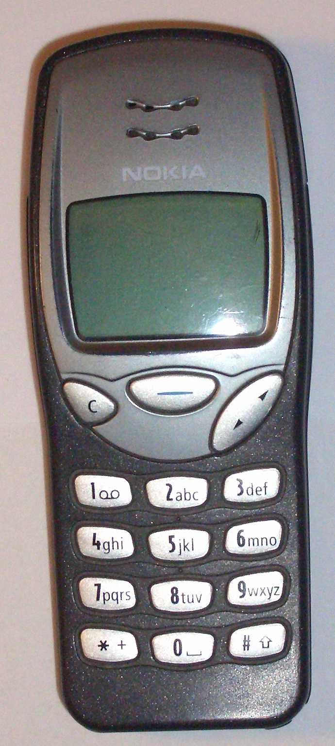 Photo of my old Nokia 3210 mobile phone. The image have been cropped and tweaked with some photo filters and had it's brightnes and contrast ajusted slightly (it's tricky to get the light right on these macro shots) in Paint Shop Pro.